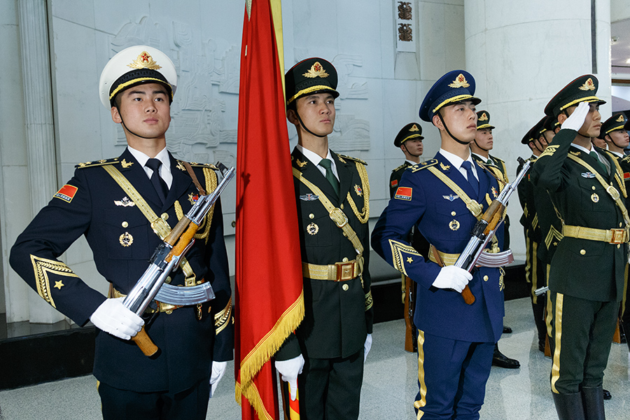 A colour guard of the Chinese People's Liberation Army (PLA) during the arrival ceremony for Sergey Shoigu.